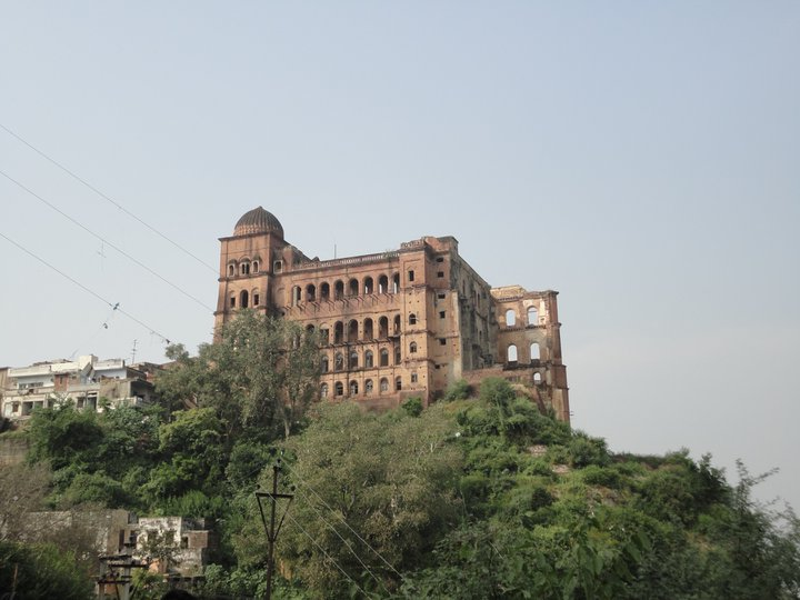 Musarak mandi complex gammes.